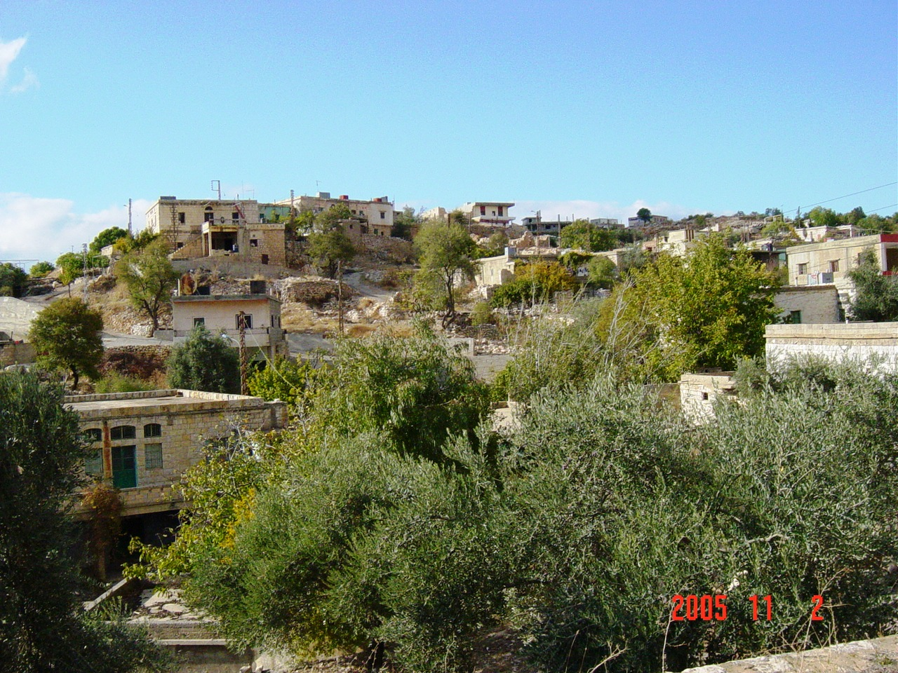 Bireh town